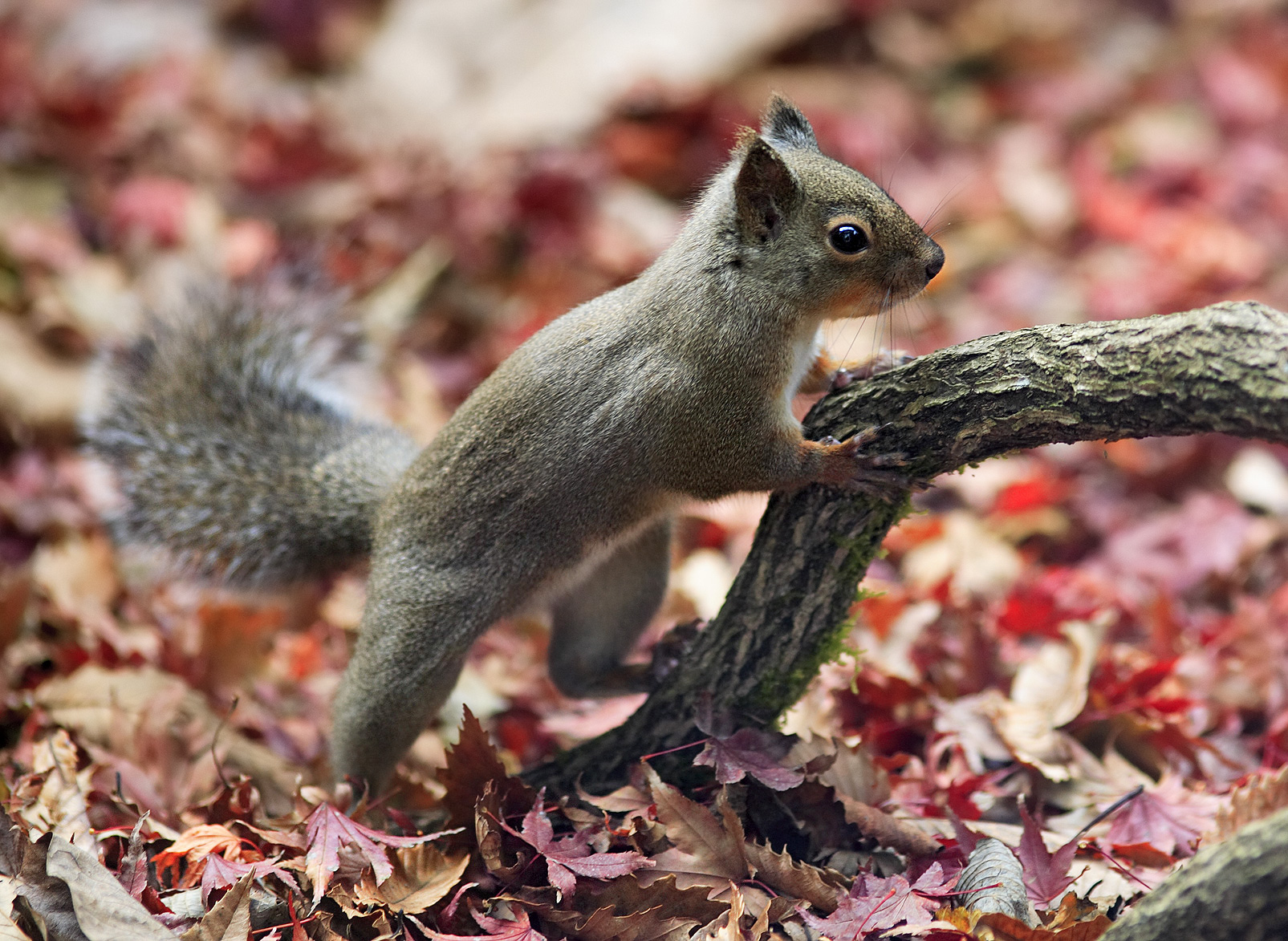 Japanese Squirrel.